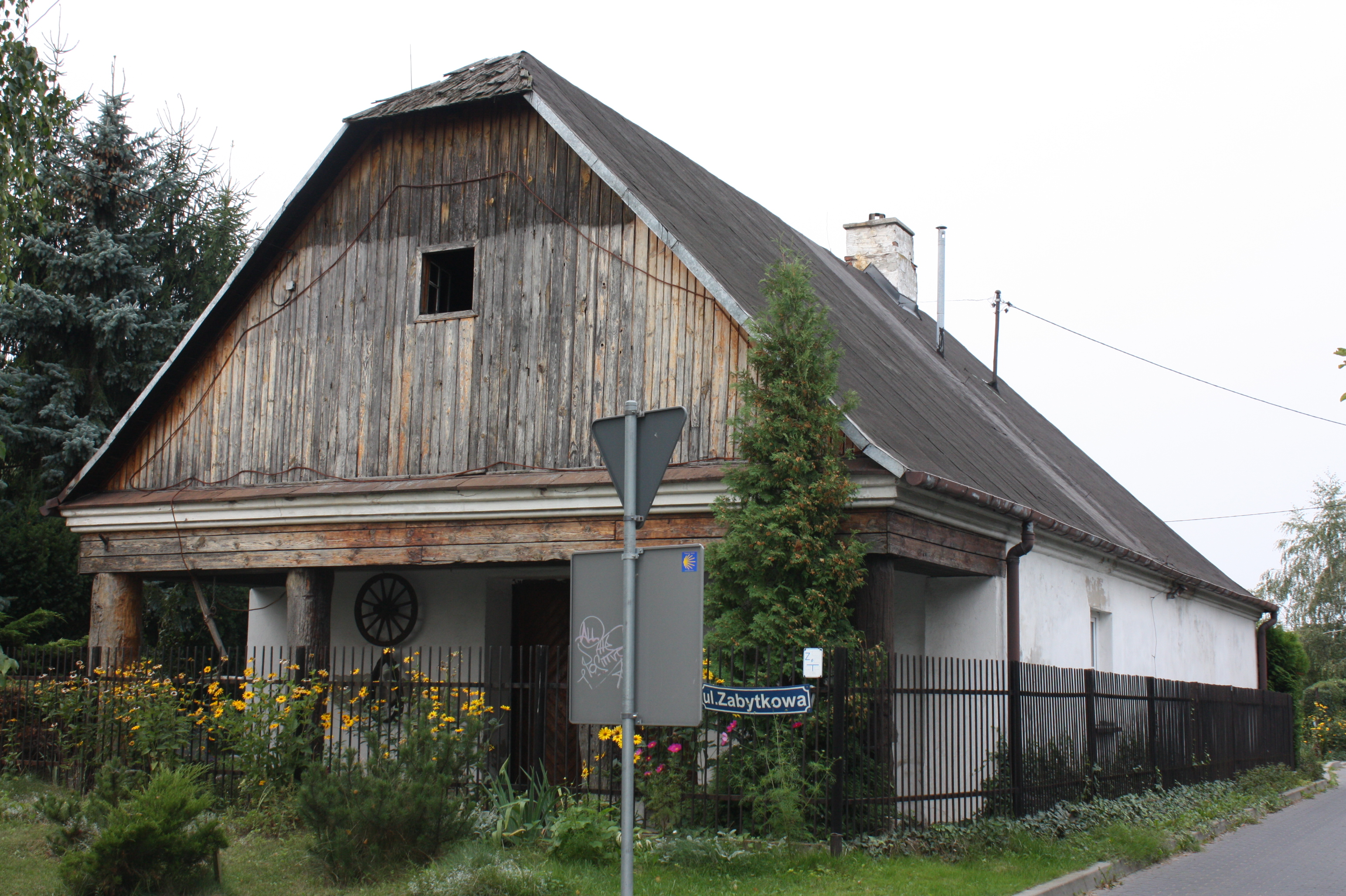 Forge of the nineteenth century, Płochocin